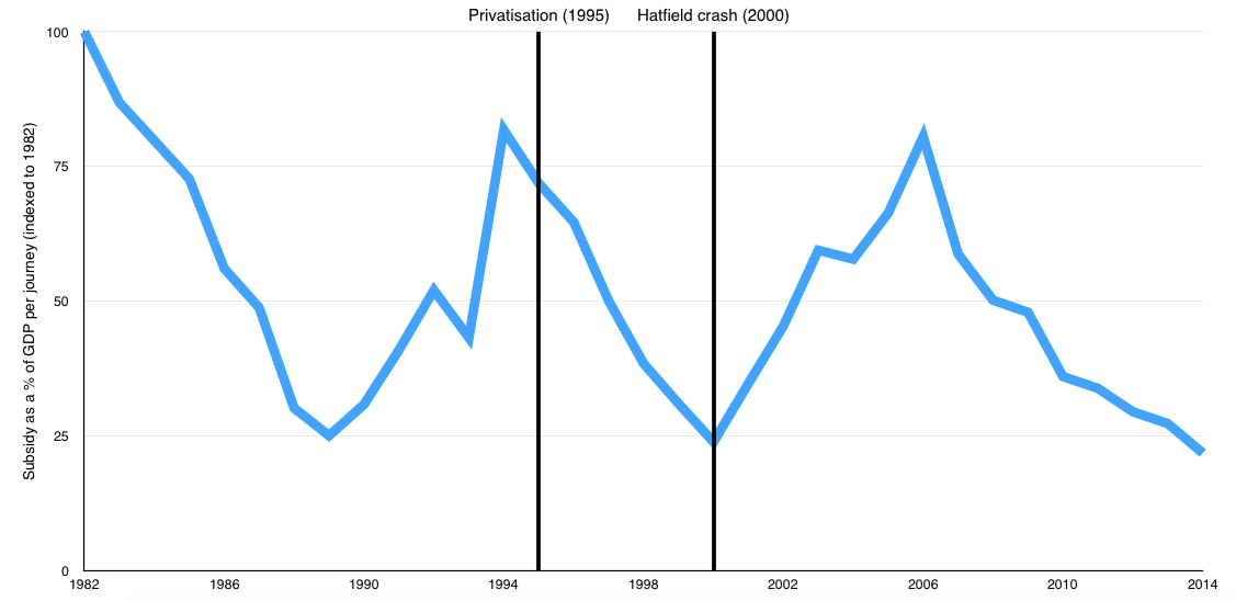 UK rail subsidy as a percentage of GDP per journey from 1982 to 2014 using GDP data from the ONS, subsidy data from Subsidy data, Terry Gourvish's "British Rail 1974-1997: From Integration to Privatisation" and passenger numbers data from ATOC's 2008 publication Billion Passenger Railway for 1982 to 2001 and Passenger journeys by sector - table for 2002 onwards